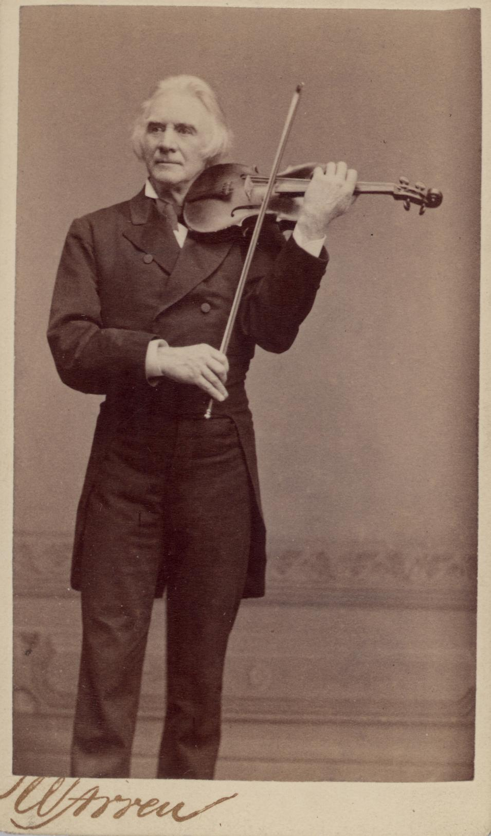 Artist: Warren's Portraits Date/place: ca. 1868, Boston Subject: Ole Bull Medium: photographic positive, B&W Notes: written on back: "A. A. Watson" Persistent URL: [#// Original belongs to the Ole Bull Collection at Bergen Public Library]